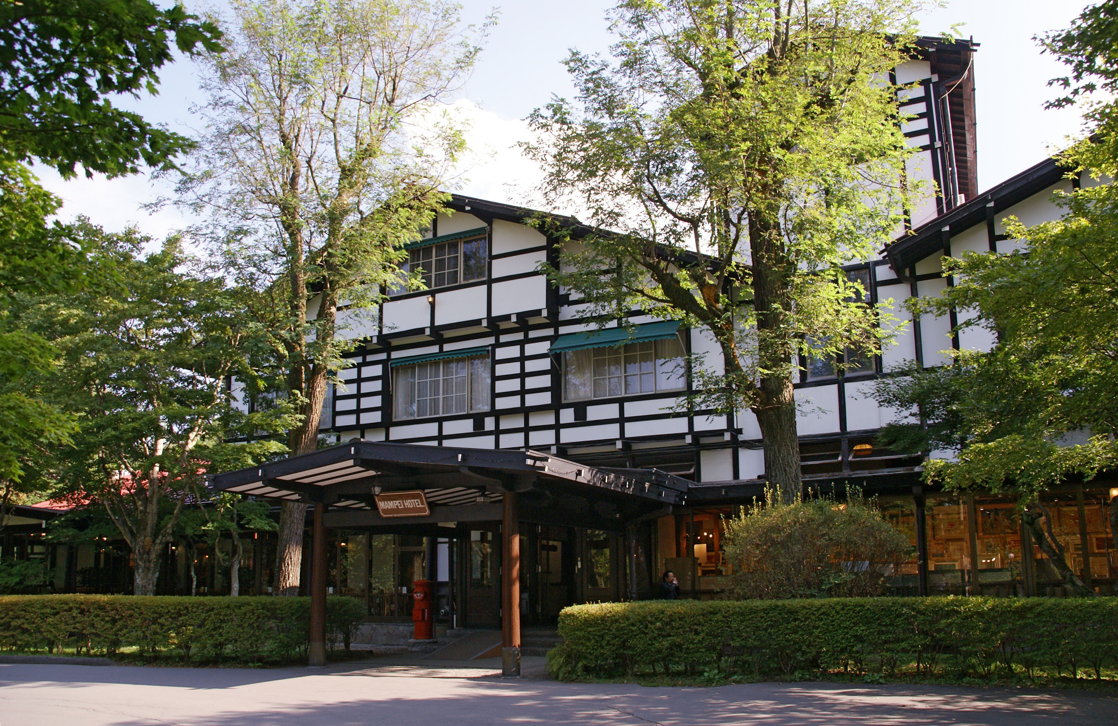 Manpei Hotel in Karuizawa, Nagano prefecture, Japan